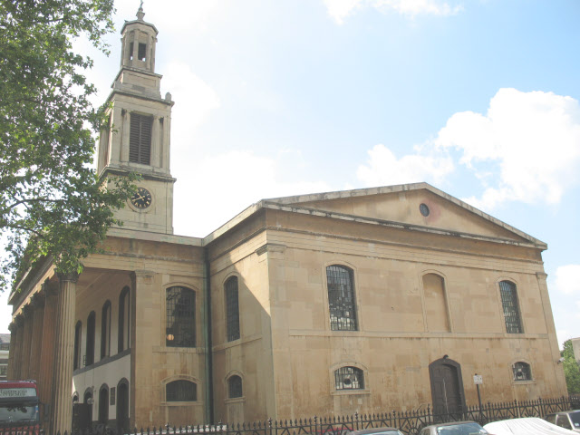 Henry Wood Hall, Trinity Church Square, Bermondsey, London SE1, seen from the northwest. Built in 1824 as Holy Trinity parish church, declared redundant in 1972, gutted by fire 1973 and converted into an orchestral hall 1975.